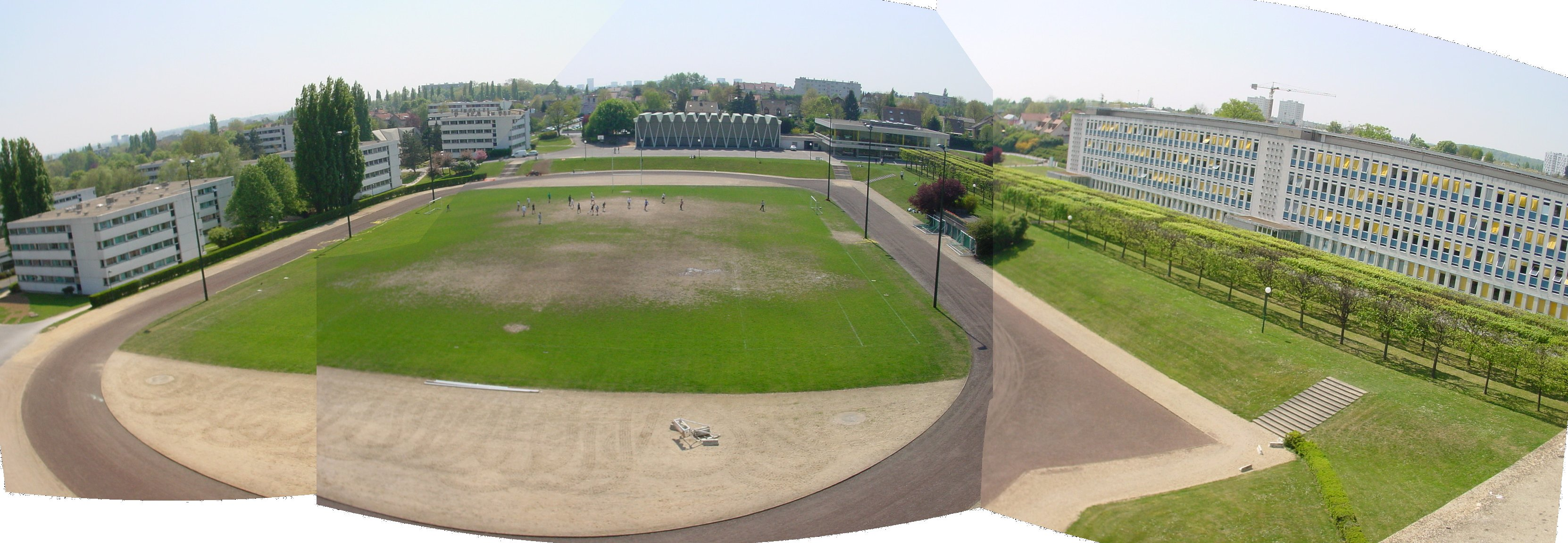 the campus of ecole centrale paris